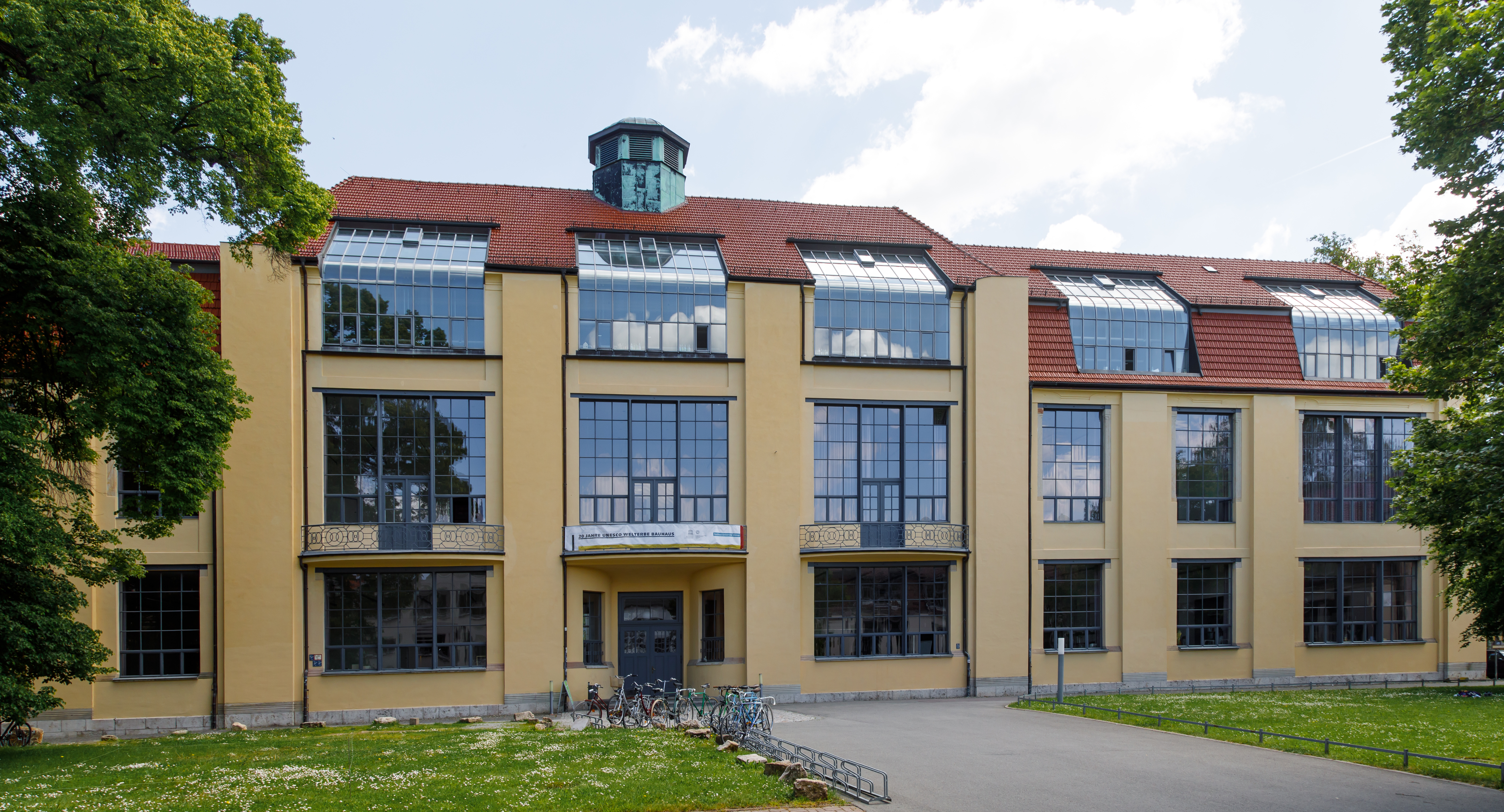 Weimar, Germany: Main building of Bauhaus-Universität Weimar